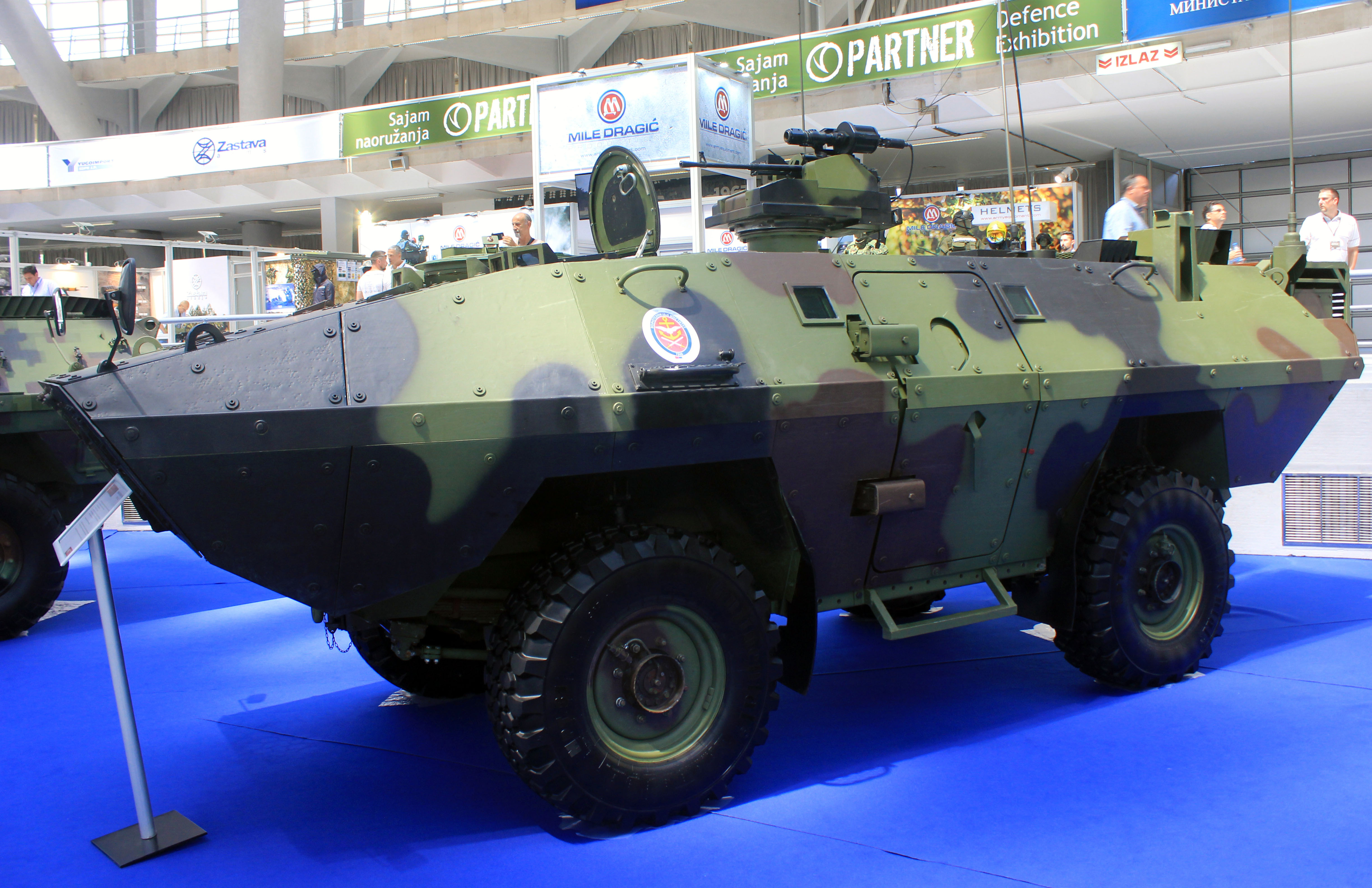 Моdernized BOV KIV on display at "Partner 2017" military fair.